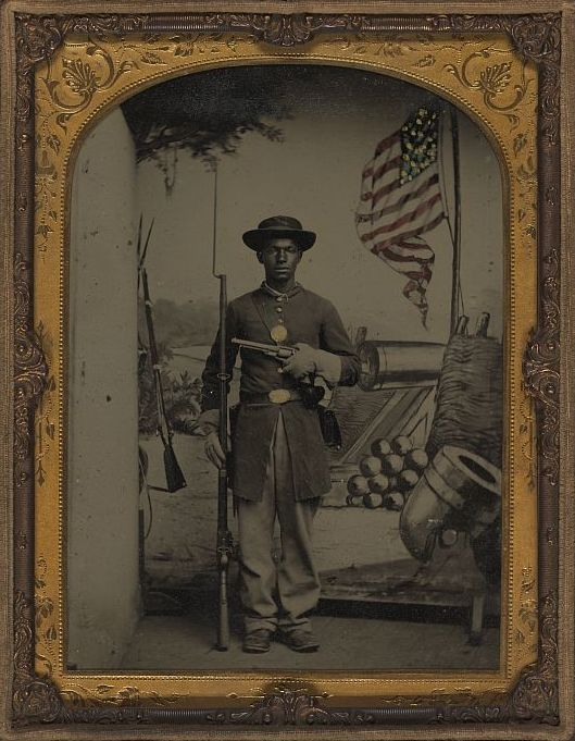 Long, Enoch,, 1823-1898,, photographer. [Unidentified African American Union soldier with a rifle and revolver in front of painted backdrop showing weapons and American flag at Benton Barracks, Saint Louis, Missouri] [between 1863 and 1865] 1 photograph : quarter plate tintype, hand-colored ; 16.2 x 13.6 cm. (frame) Notes: Frame: Berg 7-18. Title devised by Library staff. Photographer's name attribution based on article: Ertzgaard, John. "The elusive photographer of Benton Barracks." Military images, 10.6 (1989): pp. 24-25. Gift; Tom Liljenquist; 2010; (DLC/PP-2010:105) Subjects: African Americans--Military service--Missouri--Saint Louis--1860-1870. Soldiers--Union--Missouri--Saint Louis--1860-1870. Rifles--1860-1870. Handguns--1860-1870. Backdrops--1860-1870. United States--History--Civil War, 1861-1865--Military personnel--Union--Missouri--Saint Louis. Format: Portrait photographs--1860-1870. Tintypes--Hand-colored--1860-1870. Rights Info: No known restriction on publication. Repository: Library of Congress, Prints and Photographs Division, Washington, D.C. 20540 USA, Part Of: Ambrotype/Tintype filing series (Library of Congress) (DLC) 2010650518 Liljenquist Family collection (Library of Congress) (DLC) 2010650519 More information about this collection is available at Persistent URL: Call Number: AMB/TIN no. 5026